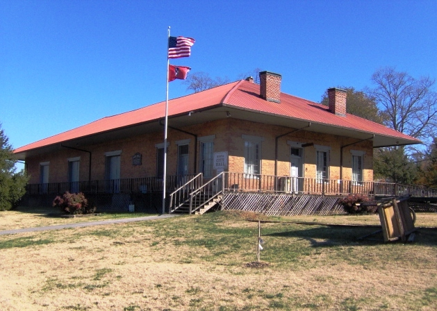 The Niota Depot in Niota, Tennessee, USA. One of the oldest train depots in Tennessee, this building now serves as Niota's city hall.